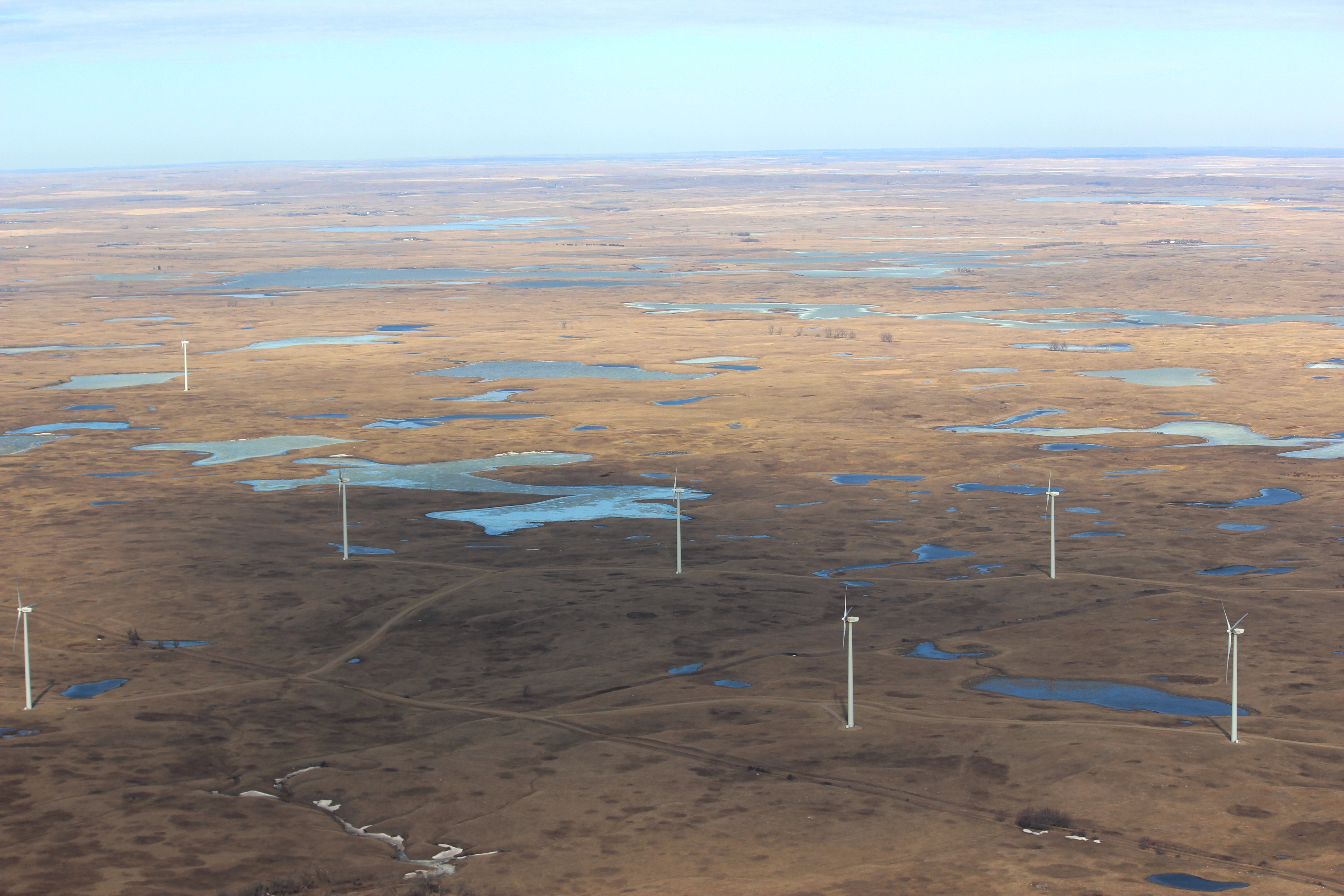 The Tatanka Wind Farm is set on the Missouri Coteau on the border in both North and South Dakota. This land is highly productive to waterfowl and other prairie species because of its intact native grasslands, abundance of wetlands, and inaccessibility by road. Photo Credit: Krista Lundgren/USFWS